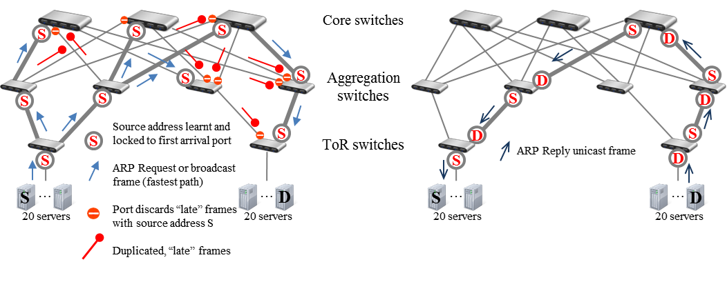 Path set up in a data center network of ARP Path switches